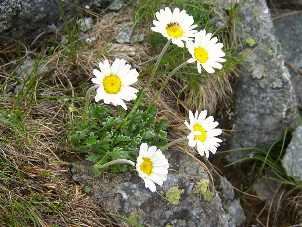 Tanacetum alpinum = Chrysanthemum alpinum (pl. wrotycz górski) habitat: Tatra Mountains, Świnica